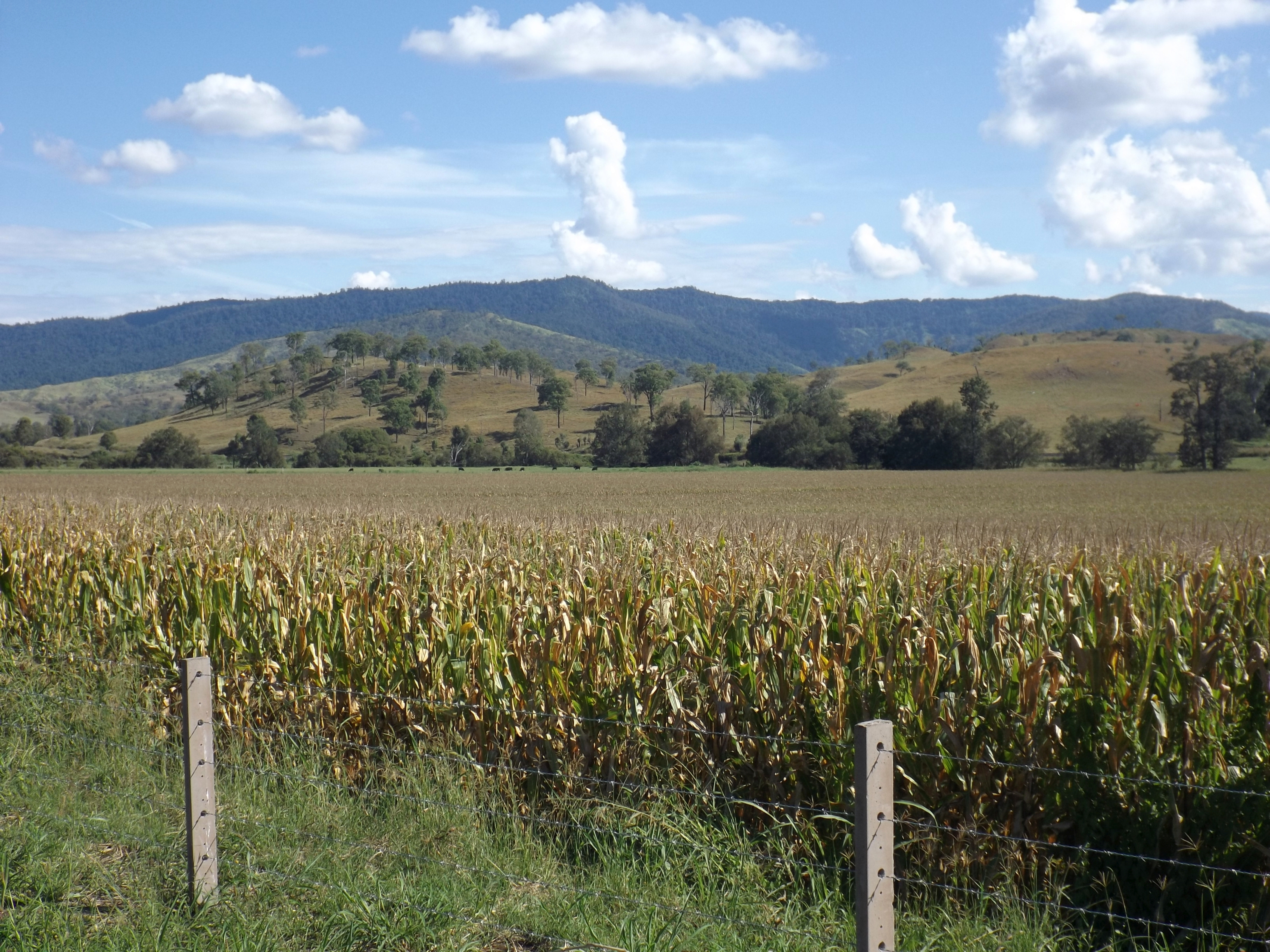 Photo of corn crop at Running Creek, Scenic Rim Region, Queensland, Australia. The McPherson Range can be seen in the background.